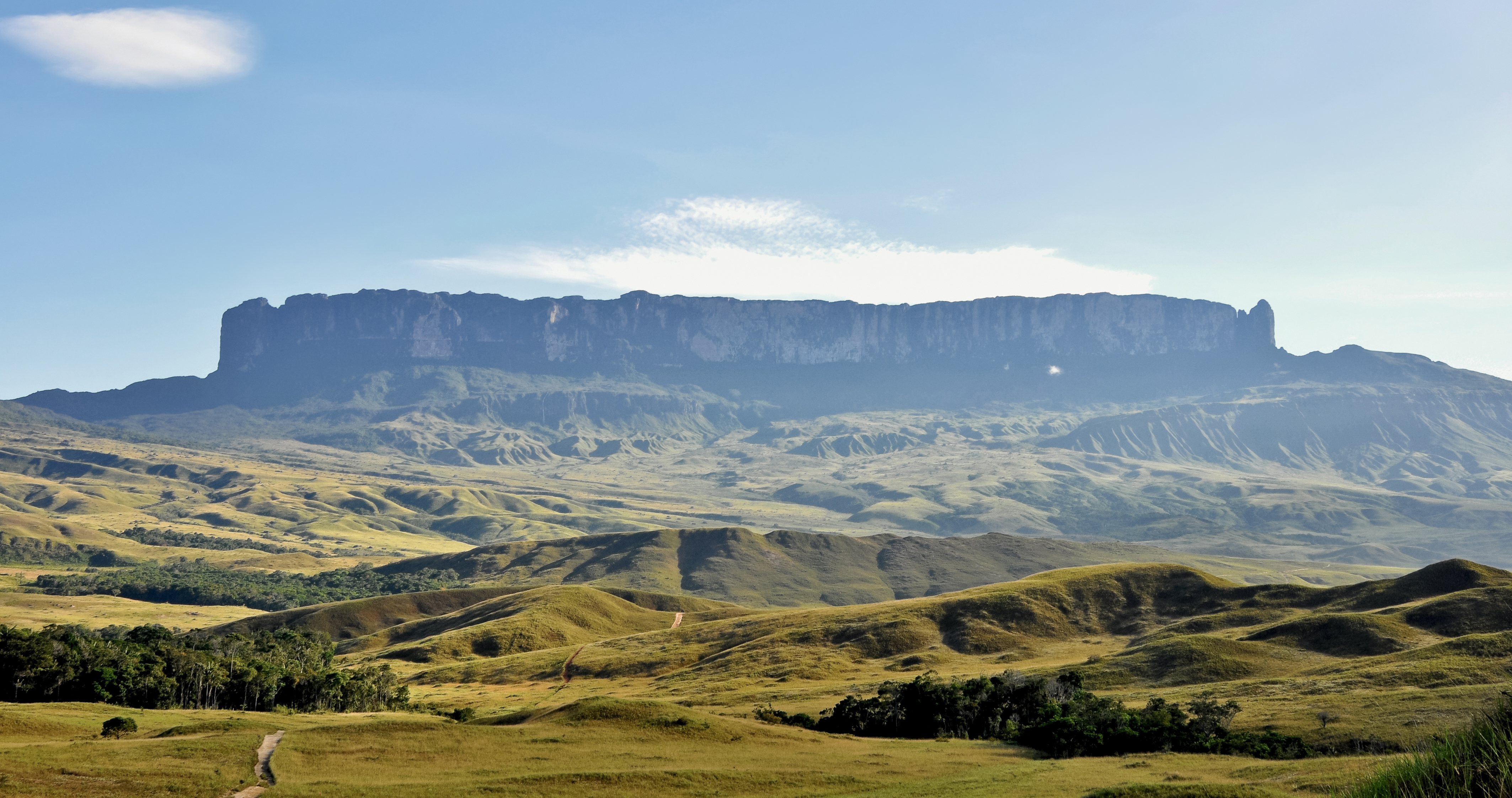 Clear morning at Mount Roraima, as seen from the road leading there from Paraitepuy pemon community, in Gran Sabana Venezuela.